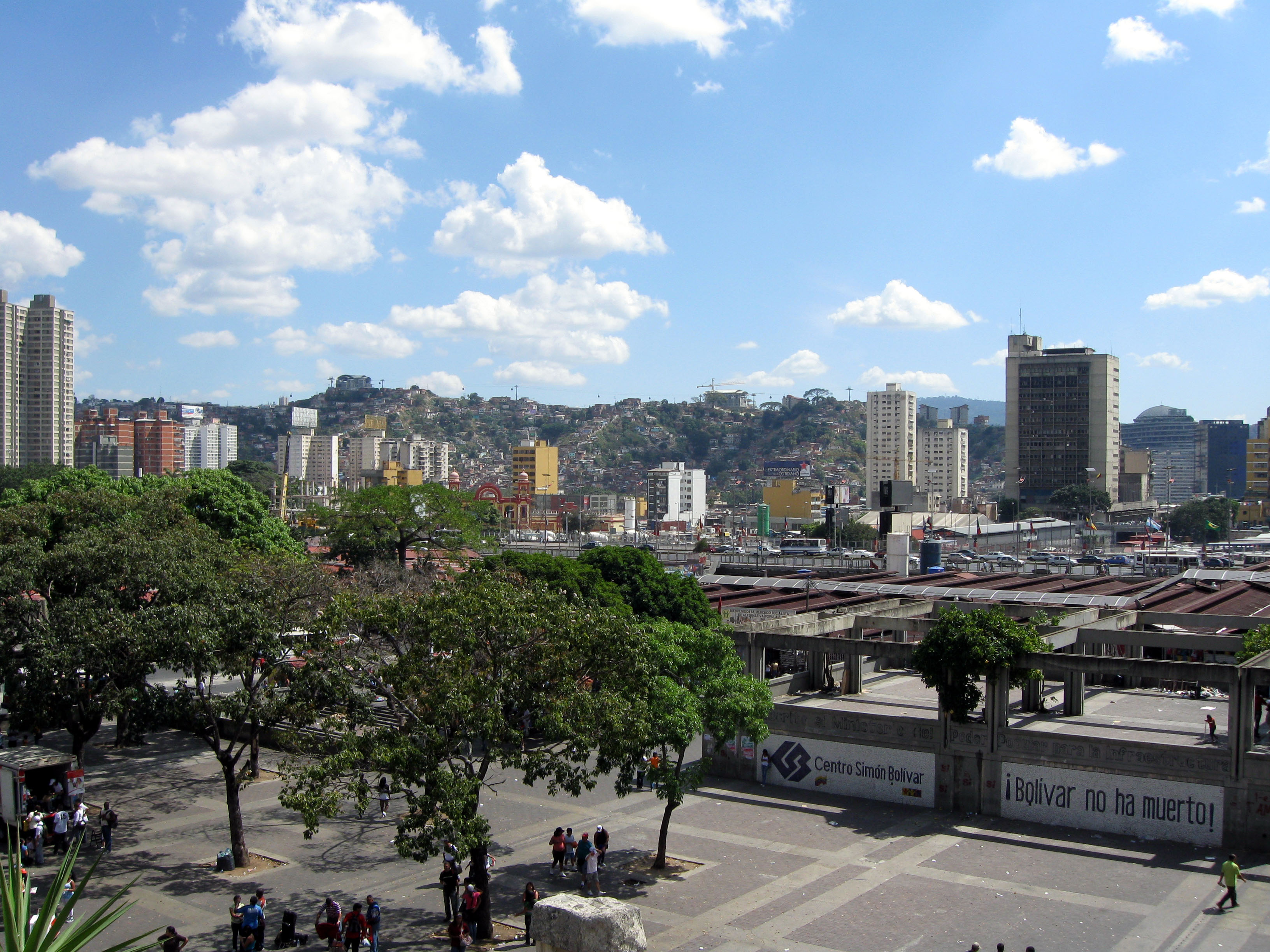 View of the Market at La Hoyada, Caracas, Venezuela